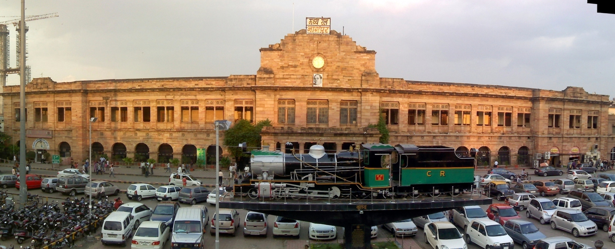 Building of Nagpur Junction Railway Station, a stitched photograph. This building was built in 1925 at 836.79 km on Mumbai-Howrah route. It is built with sandstone, which was brought from the nearby town of Saoner. It was dedicated to the public by Sir Frank G. Sly, the erstwhile governer of Central Province, on January 15, 1925.